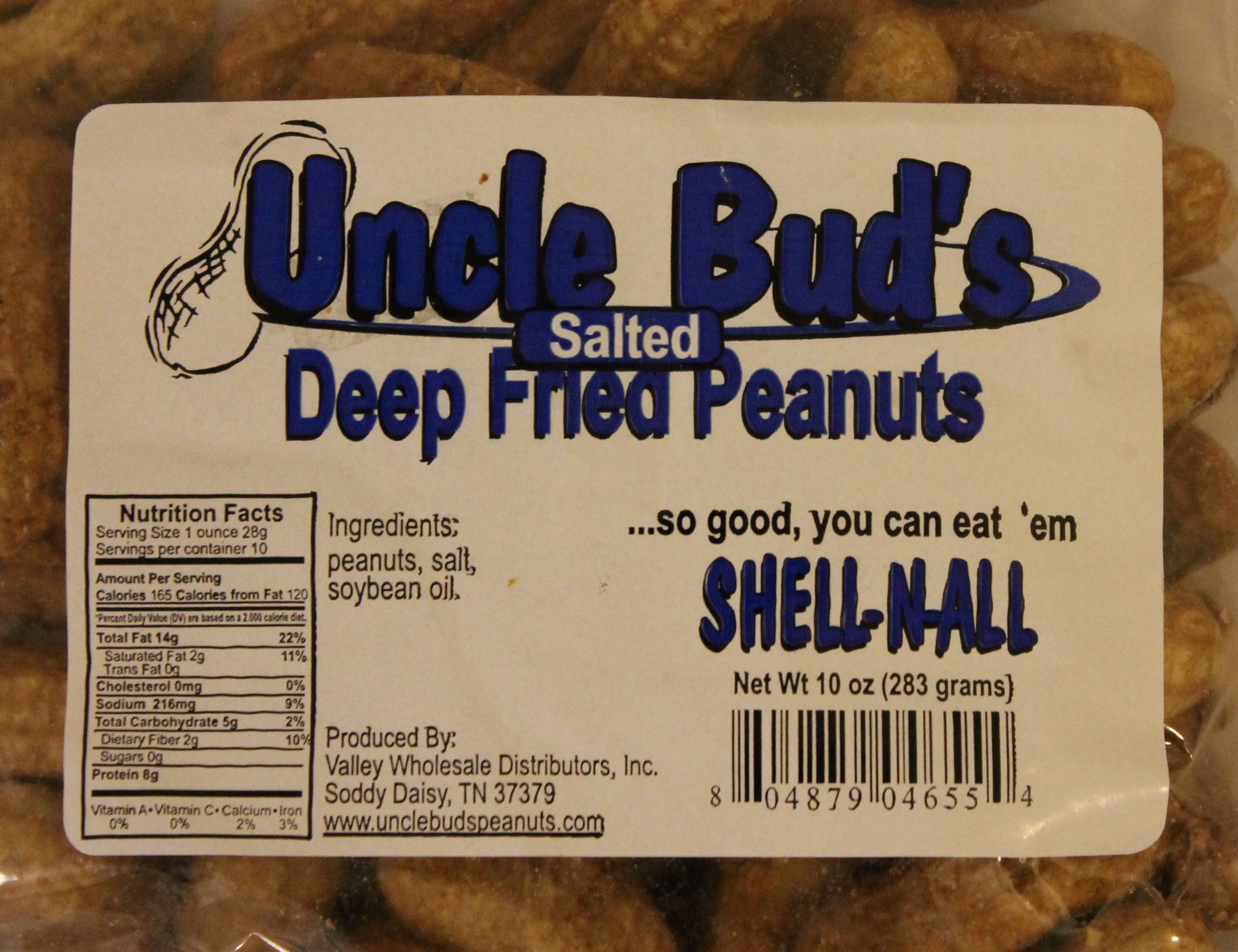 Uncle Bud's Deep Fried Peanuts